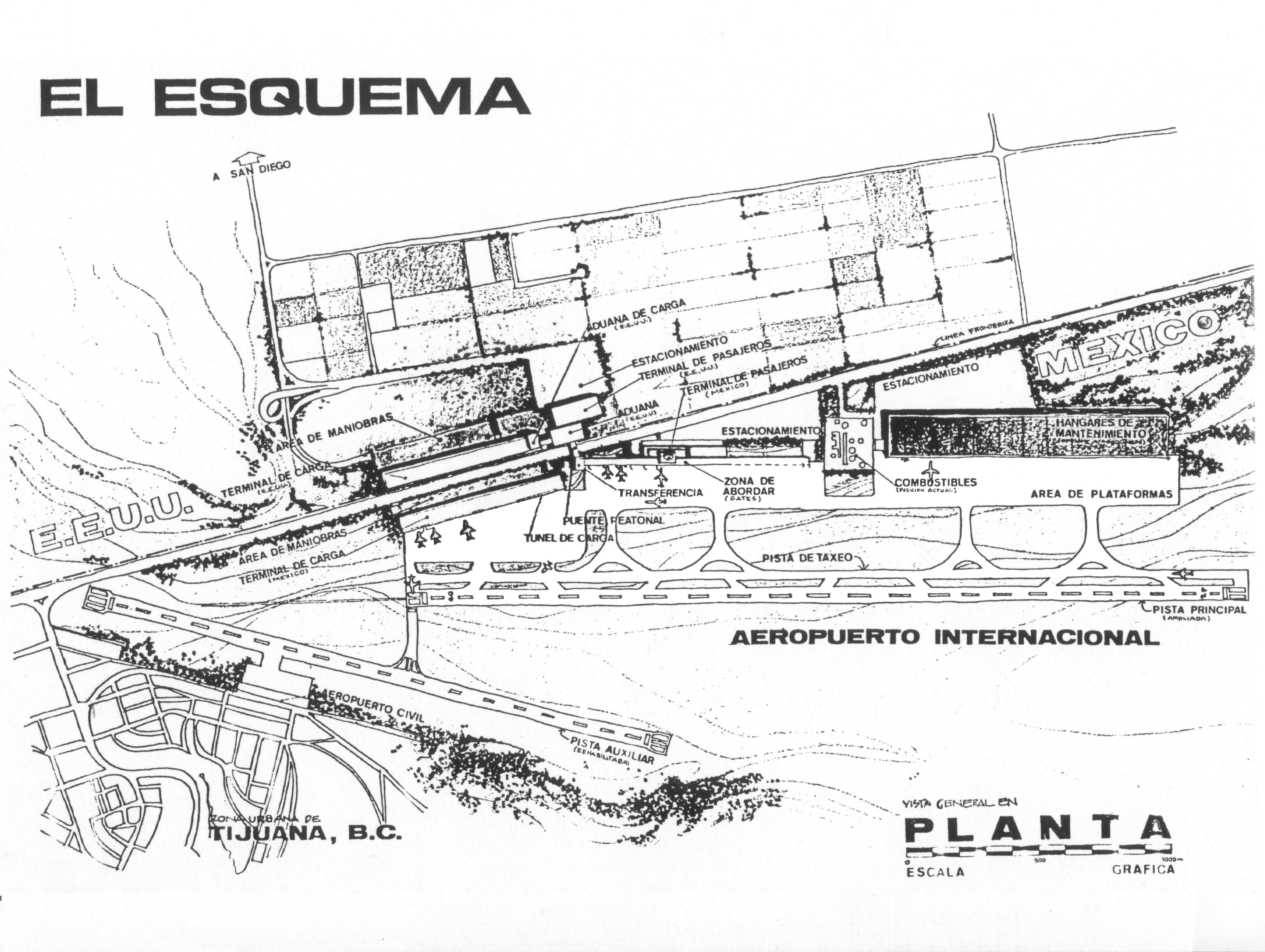 This image shows the basic layout of the Tijuana cross-border terminal proposed in 1990.